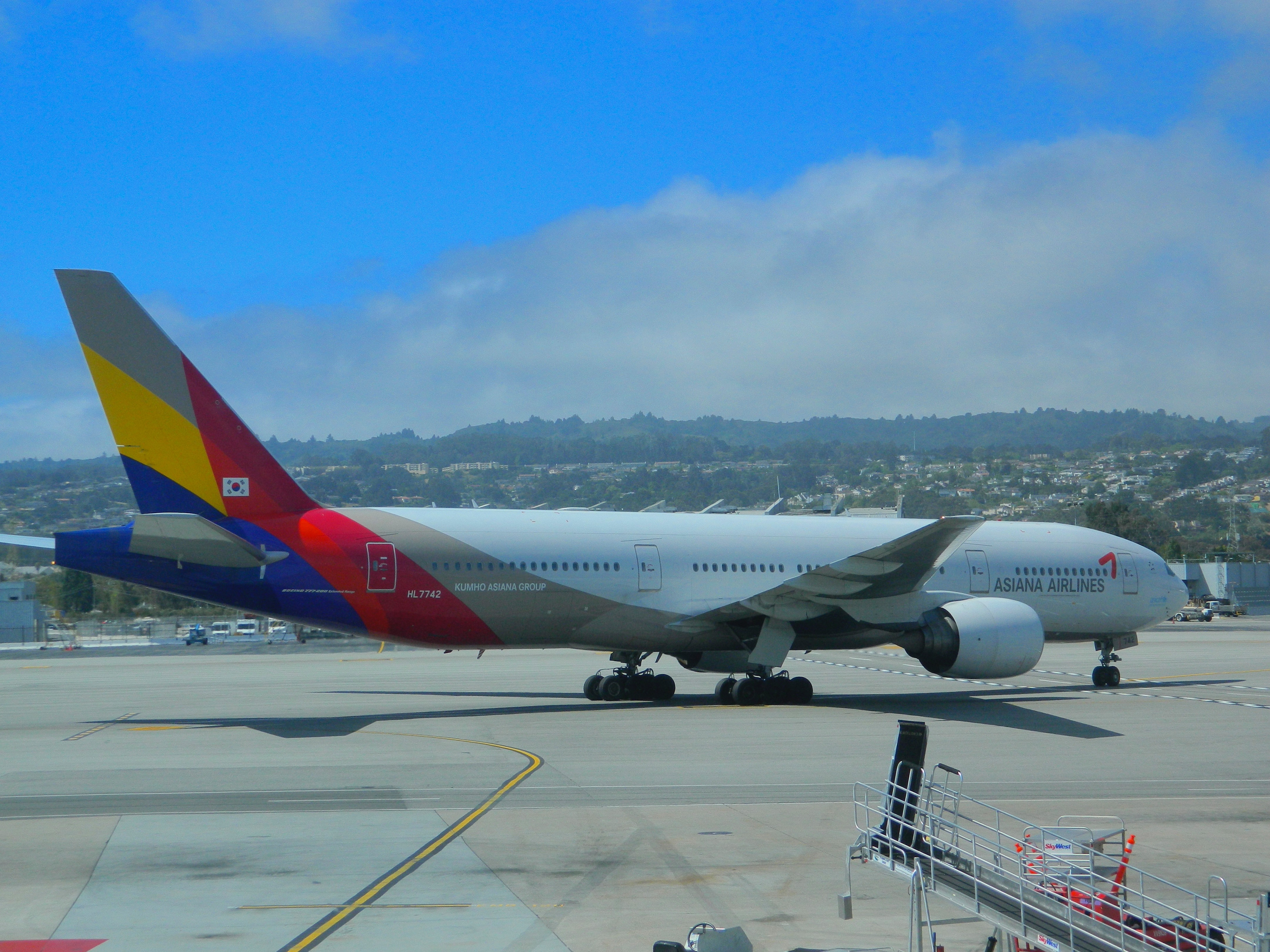 HL7742, the aircraft involved in the accident, pictured at San Francisco International Airport 43 days prior to the accident.